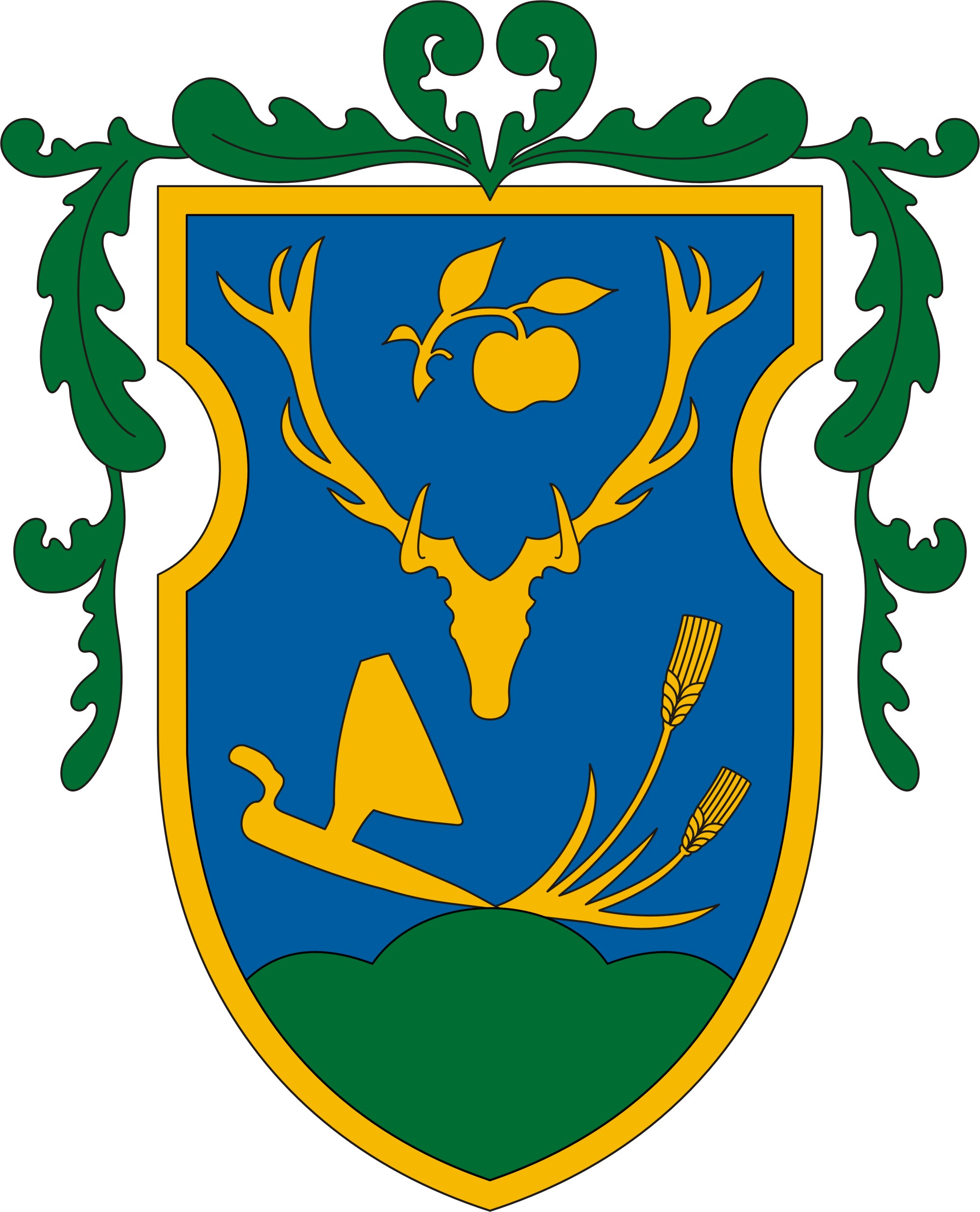 Coat of arms of Hevesaranyos, Hungary